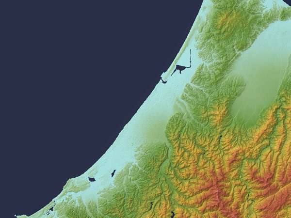 Kanazawa Plain in Ishikawa Prefecture Honshu, Japan.